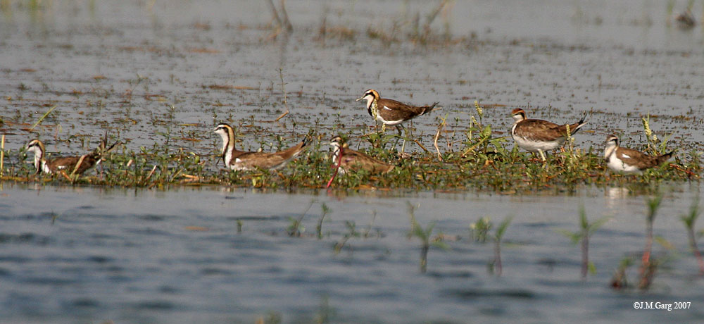 Pheasant-tailed Jacana Hydrophasianus chirurgus at Purbasthali in Bardhaman District of West Bengal, India.